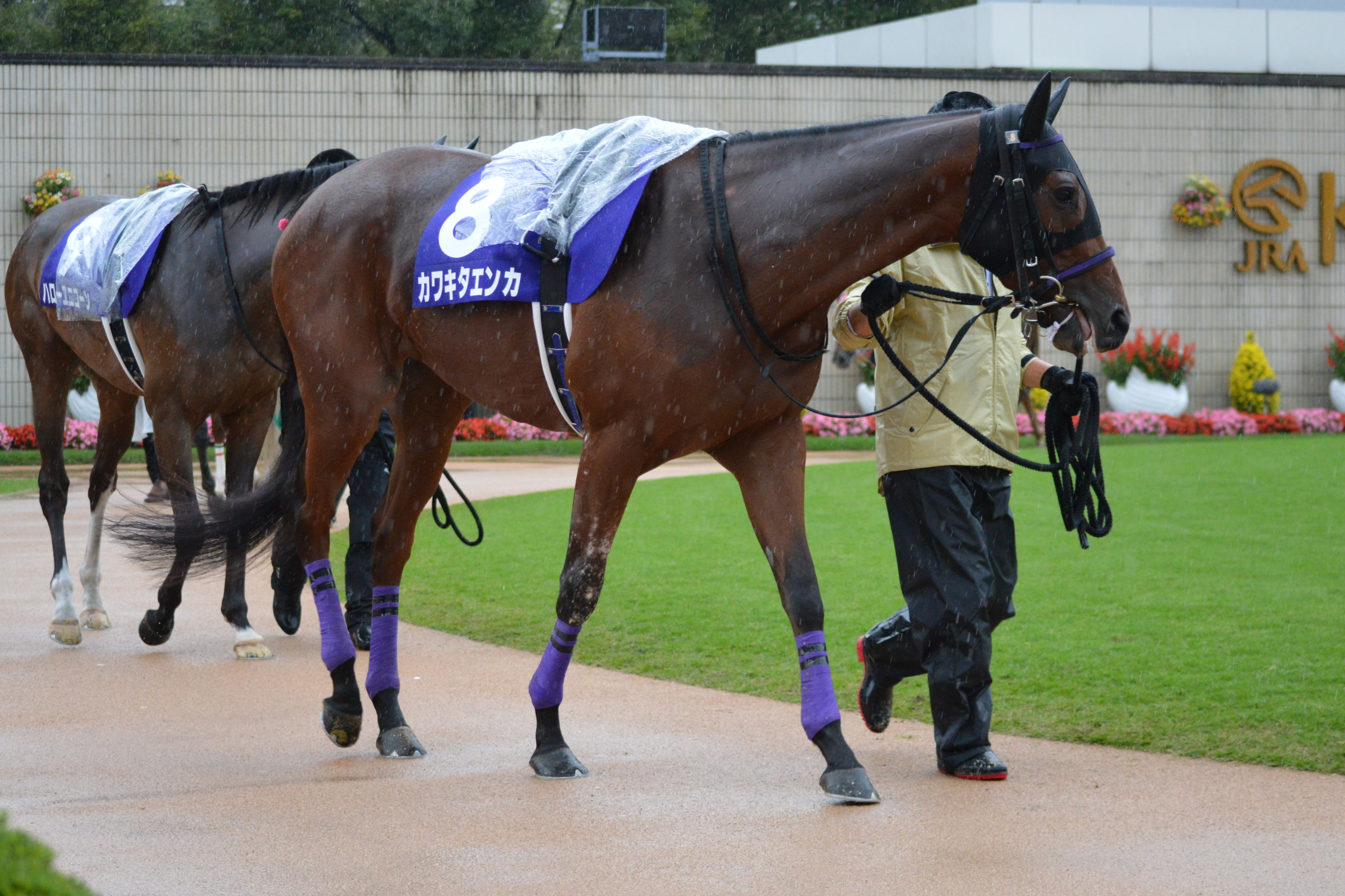 Japanese race horse Kawakita Enka at Kyoto racecourse. Kyoto (JPN) 15 Oct 2017Shuka Sho (Grade 1) (3yo Fillies) (Turf) 1m2f Yielding RankHorse NameOddsAgeWgtJockeyTrainer1stDeirdre (JPN)53/10F38-9Christophe-Patrice LemaireMitsuru Hashida5thKawakita Enka (JPN)184/10F38-9Yuichi KitamuraTamio HamadaOthers are omitted. (18 horses entered in a race.)